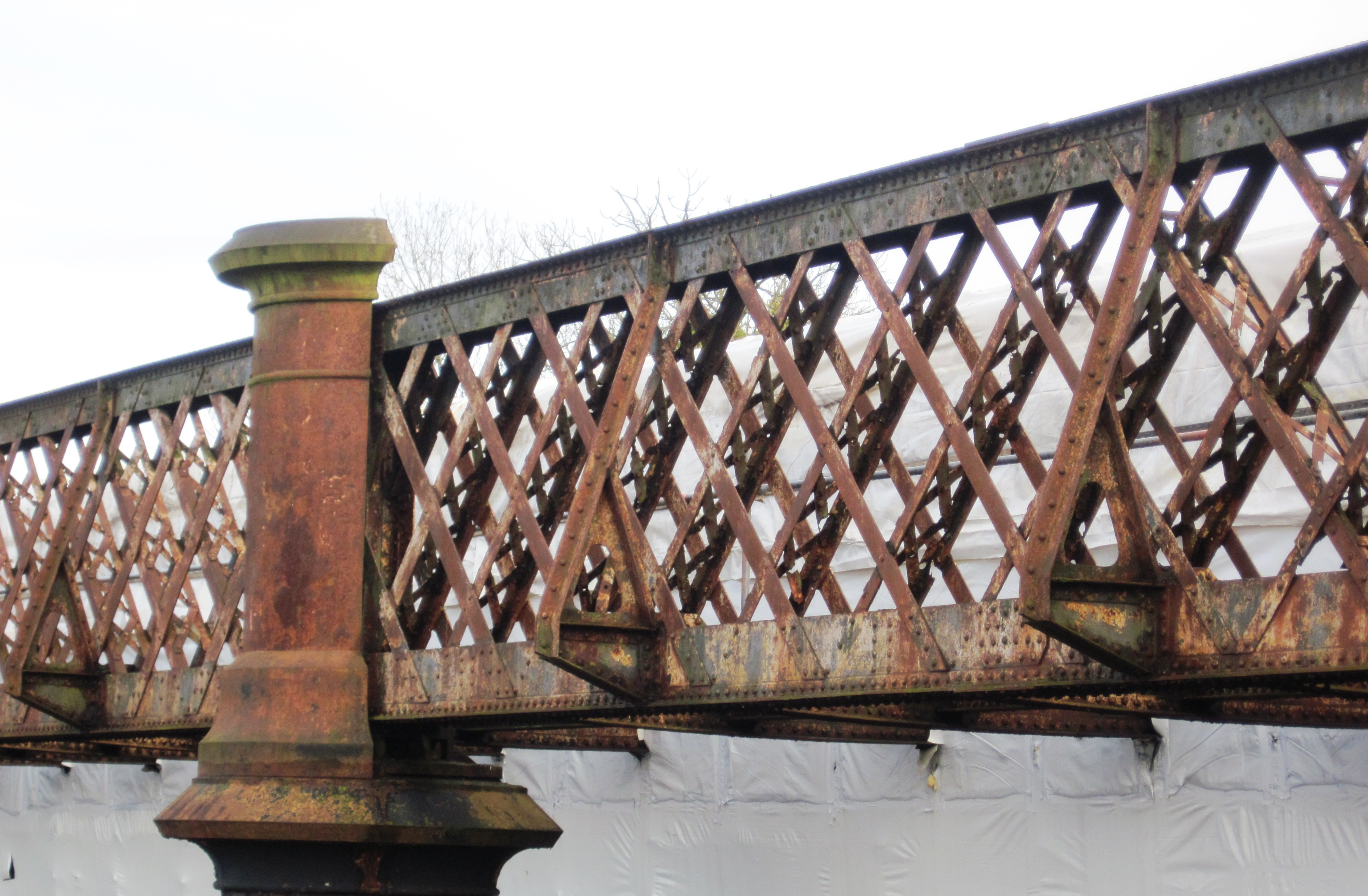 View of bridge under renovation. The furthermost spans are still encased in protective sheeting